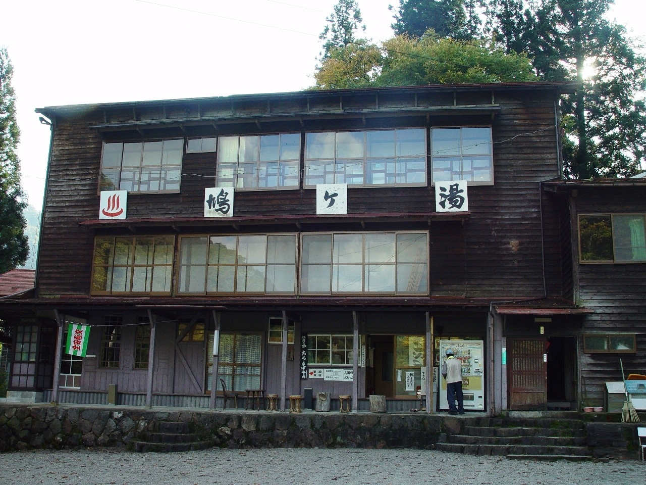 Old Hatogayu Onsen in Kamiuchinami, Ōno, Fukui prefecture, Japan.